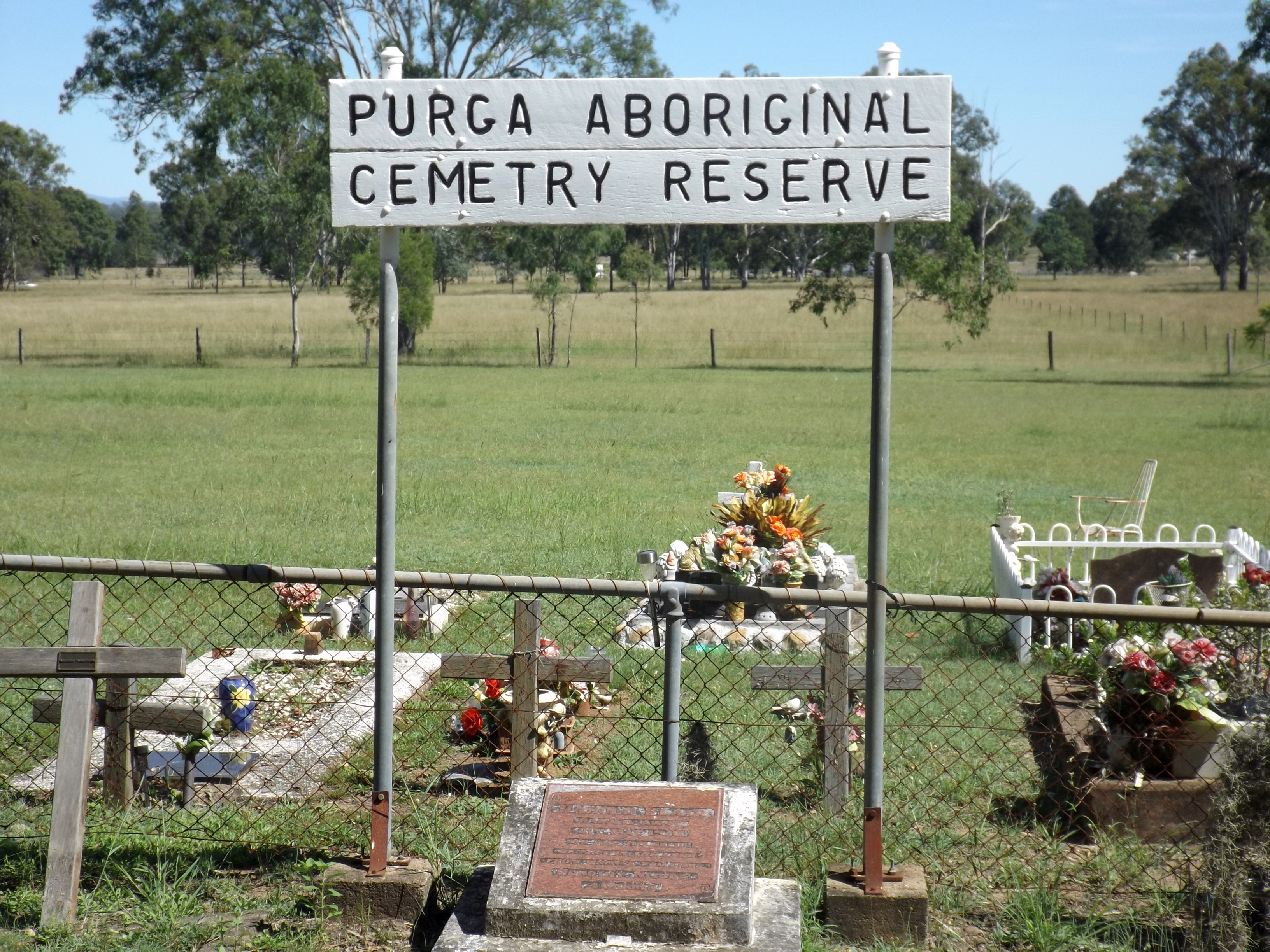 Photo of sign at Purga Aboriginal Cemetery at Purga, City of Ipswich, Queensland, Australia.